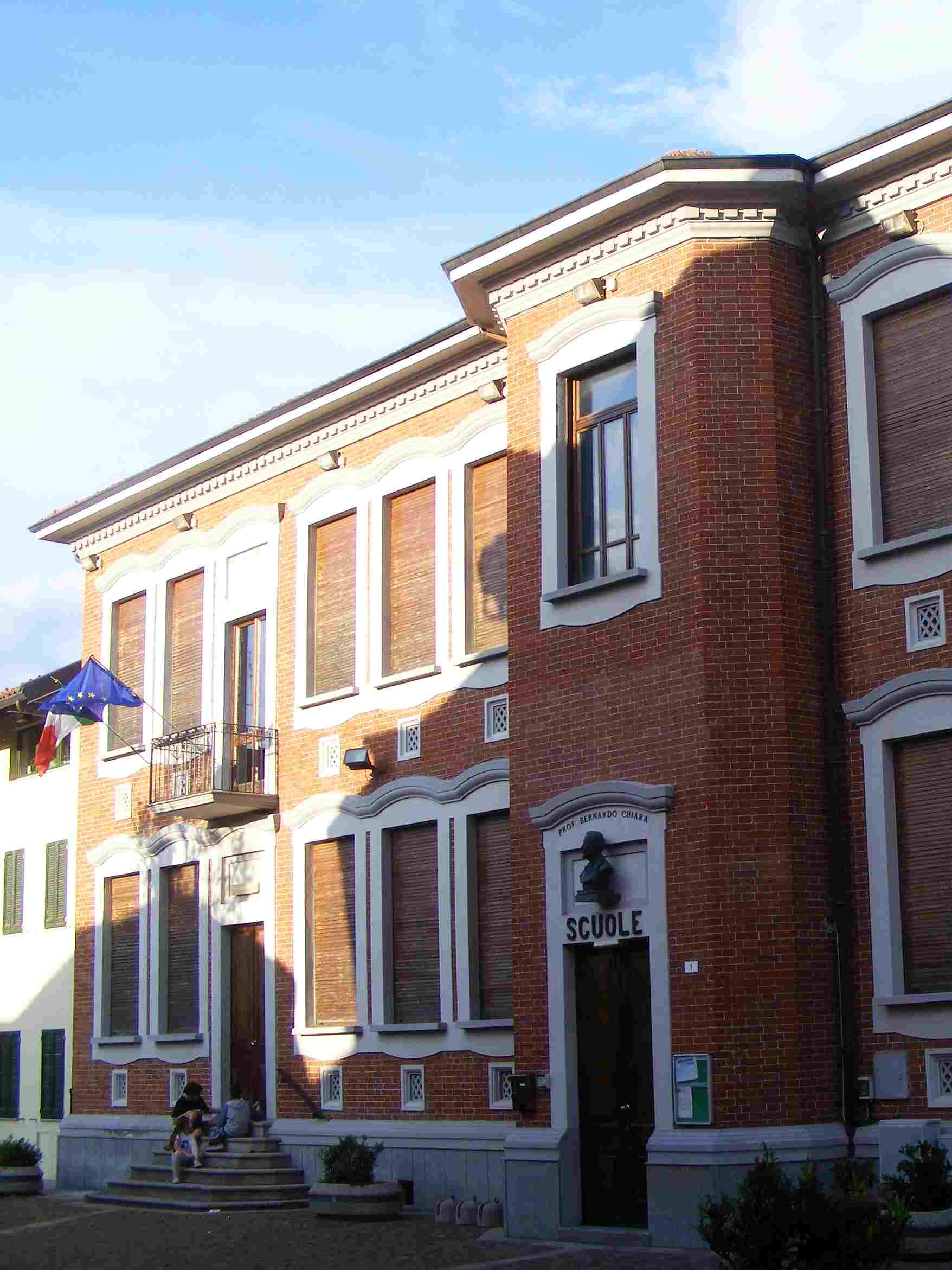 Vauda Canavese (TO, Italy): school building